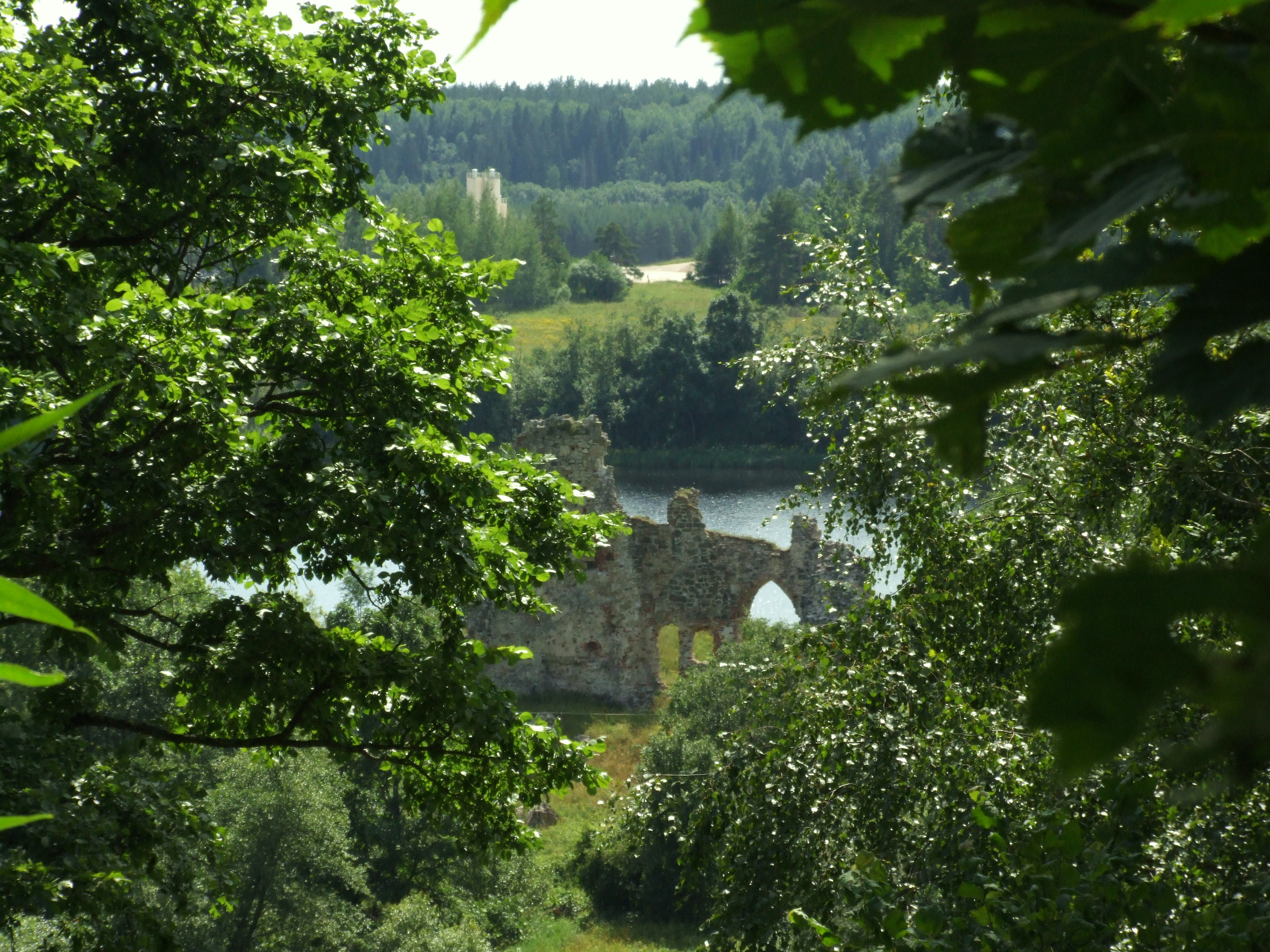 Aizkraukle Castle ruinsLatviešu: Aizkraukles pilsdrupas